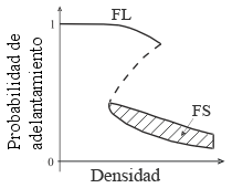 Traffic breakdown